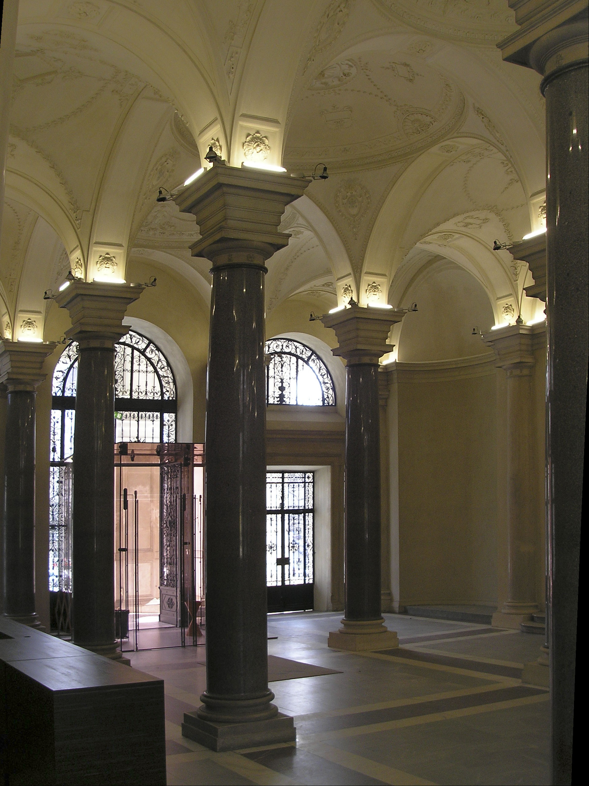 Description: Interior view of the main entrance (Foyer) in the University of Vienna. Source: self-made, I release it into the public domain.